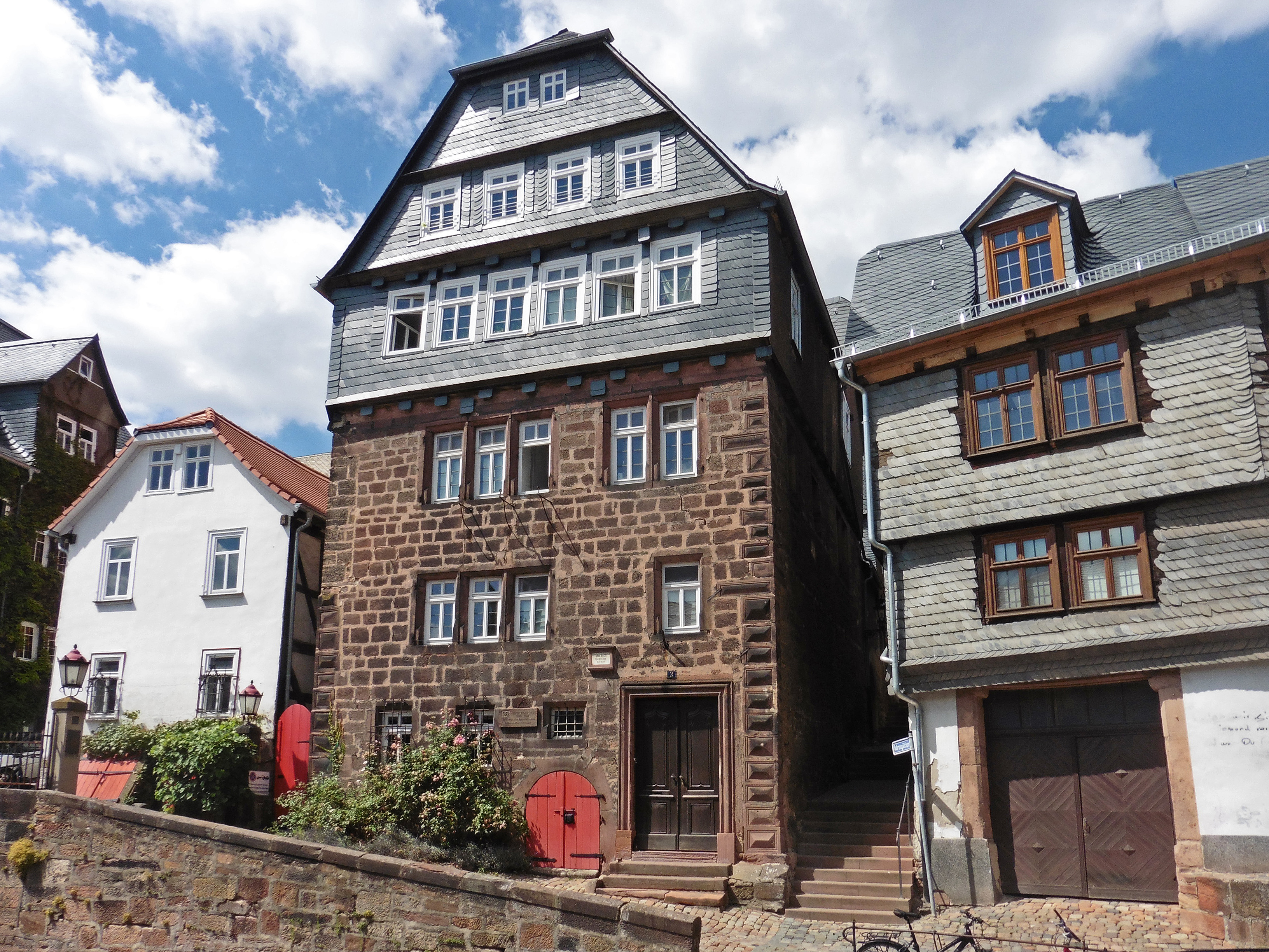 Marburg, "Arnsburger Hof" Barfüßerstraße 3 on the left hand side of the Gehrensgäßchen, former house of the reformator Adam Krafft, seen from Southsoutheast.